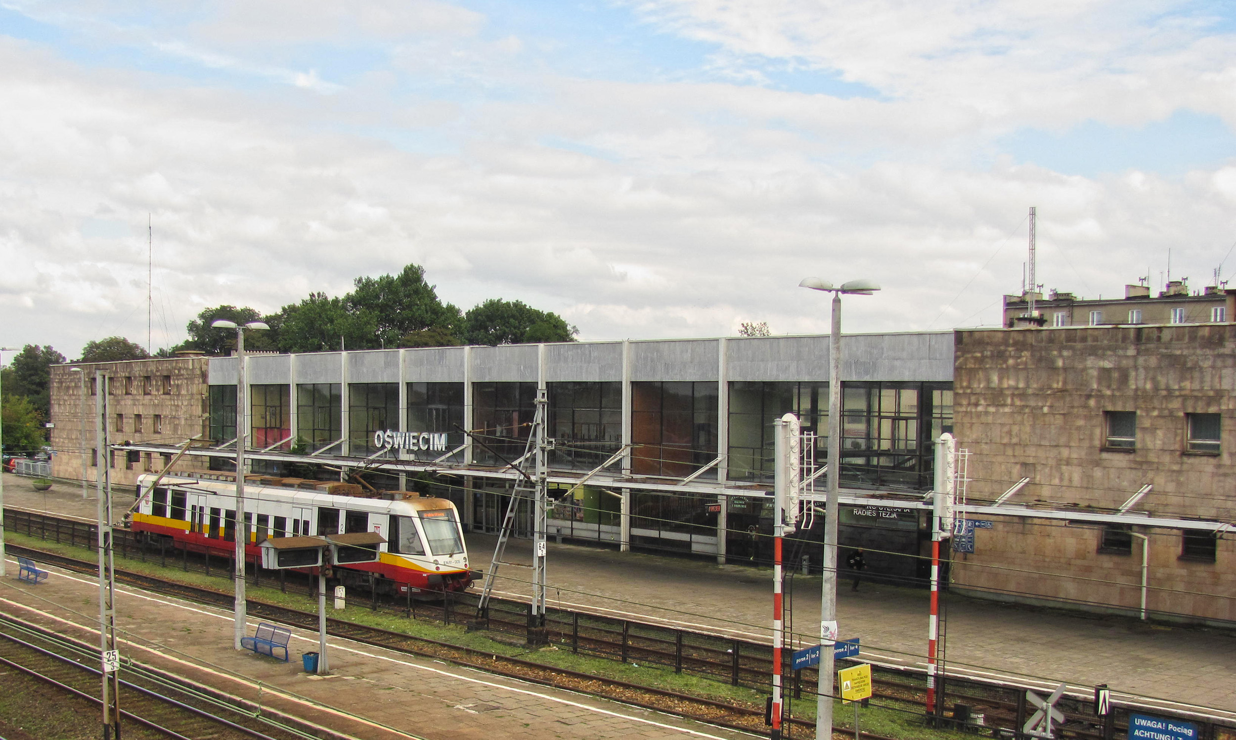 Oświęcim train station.